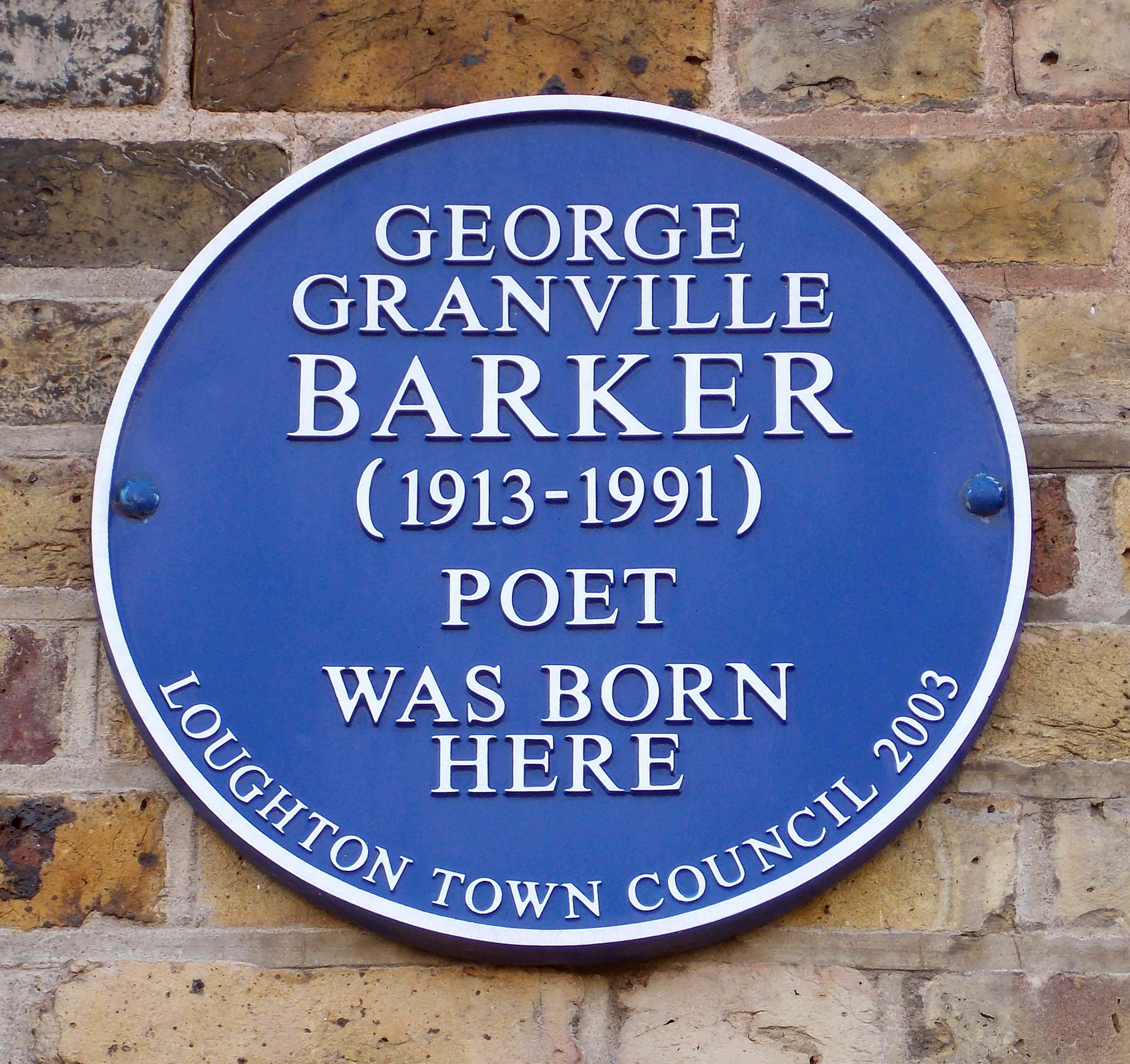 George Granville Barker (1913-1991) blue plaque for his birth at at116 Forest Road, Loughton, Essex, England.